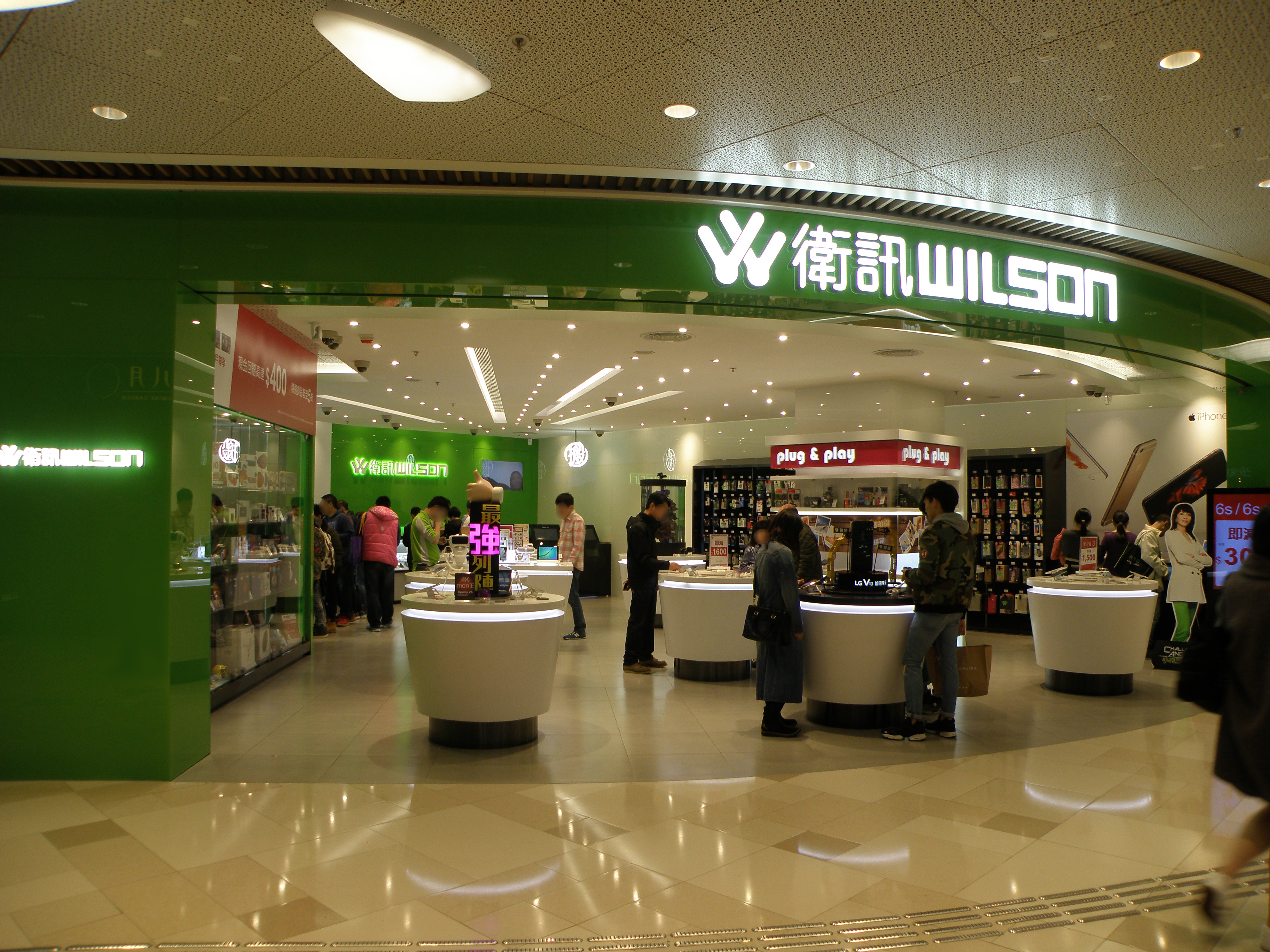 Wilson Communications in Tuen Mun, Hong Kong.